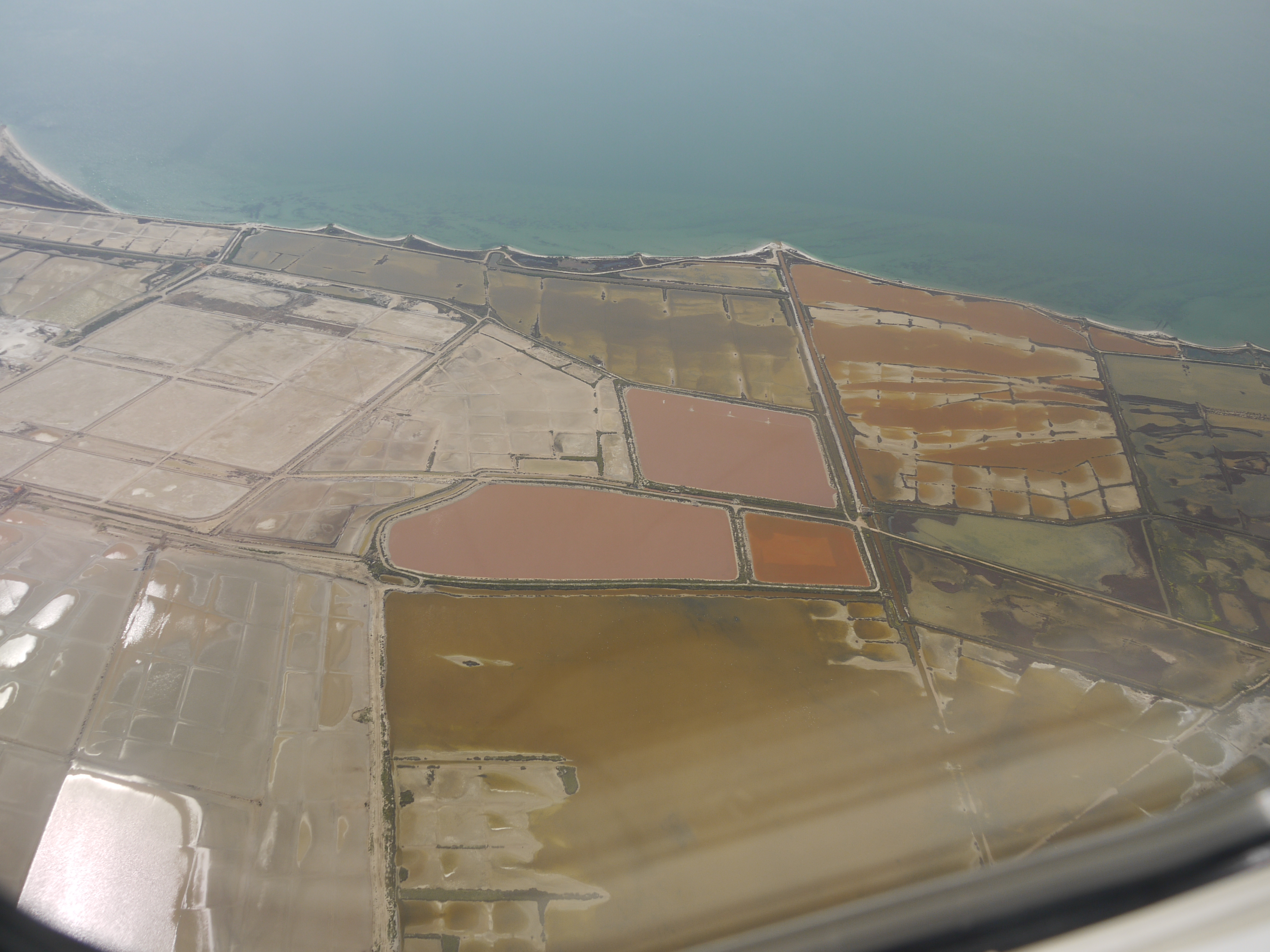 The "Salins de Berre", photograph taken from the sky, on the fly line between Marseille and Stockholm.